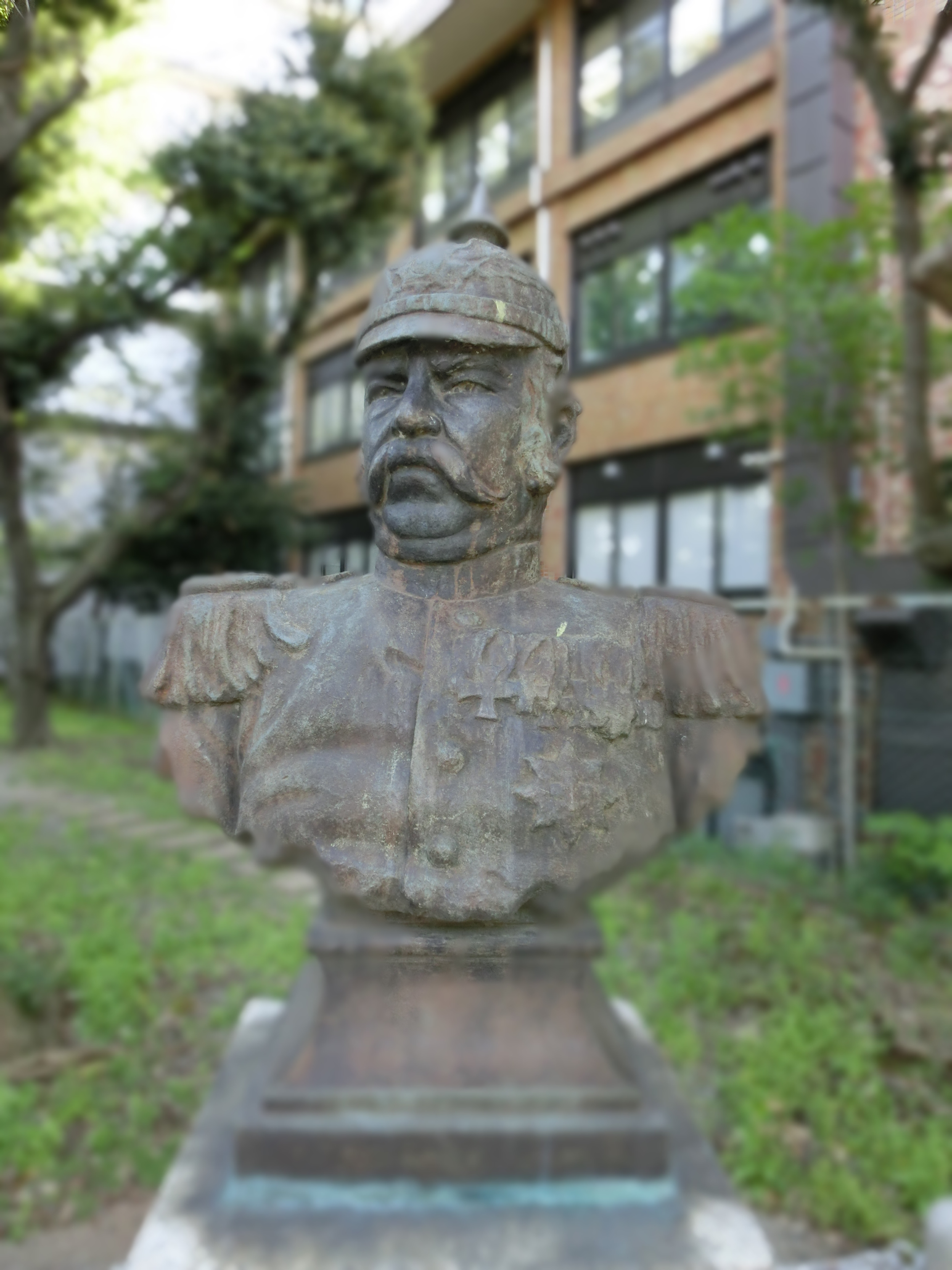 A bronze bust (replica) of Leopold Müller, a German military surgeon and a founder of the medical school of Tokyo, carved in 1895 by Bunzo Fujita (1861-1934). At Hongo campus of the University of Tokyo.